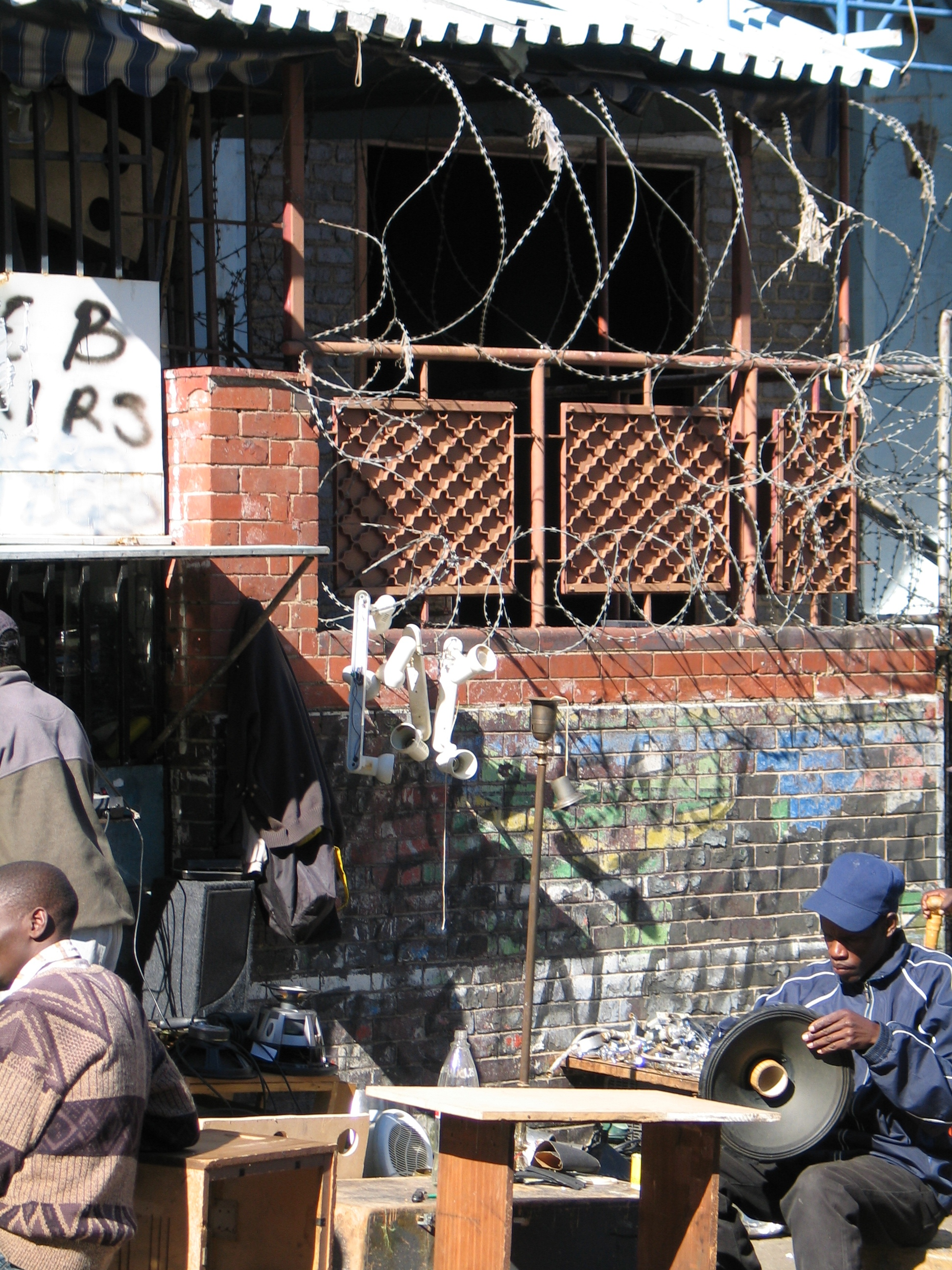 Repair shop on pavement, Hillbrow, Johannesburg, South Africa